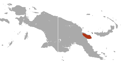 Matschie's Tree Kangaroo (Dendrolagus matschiei) range